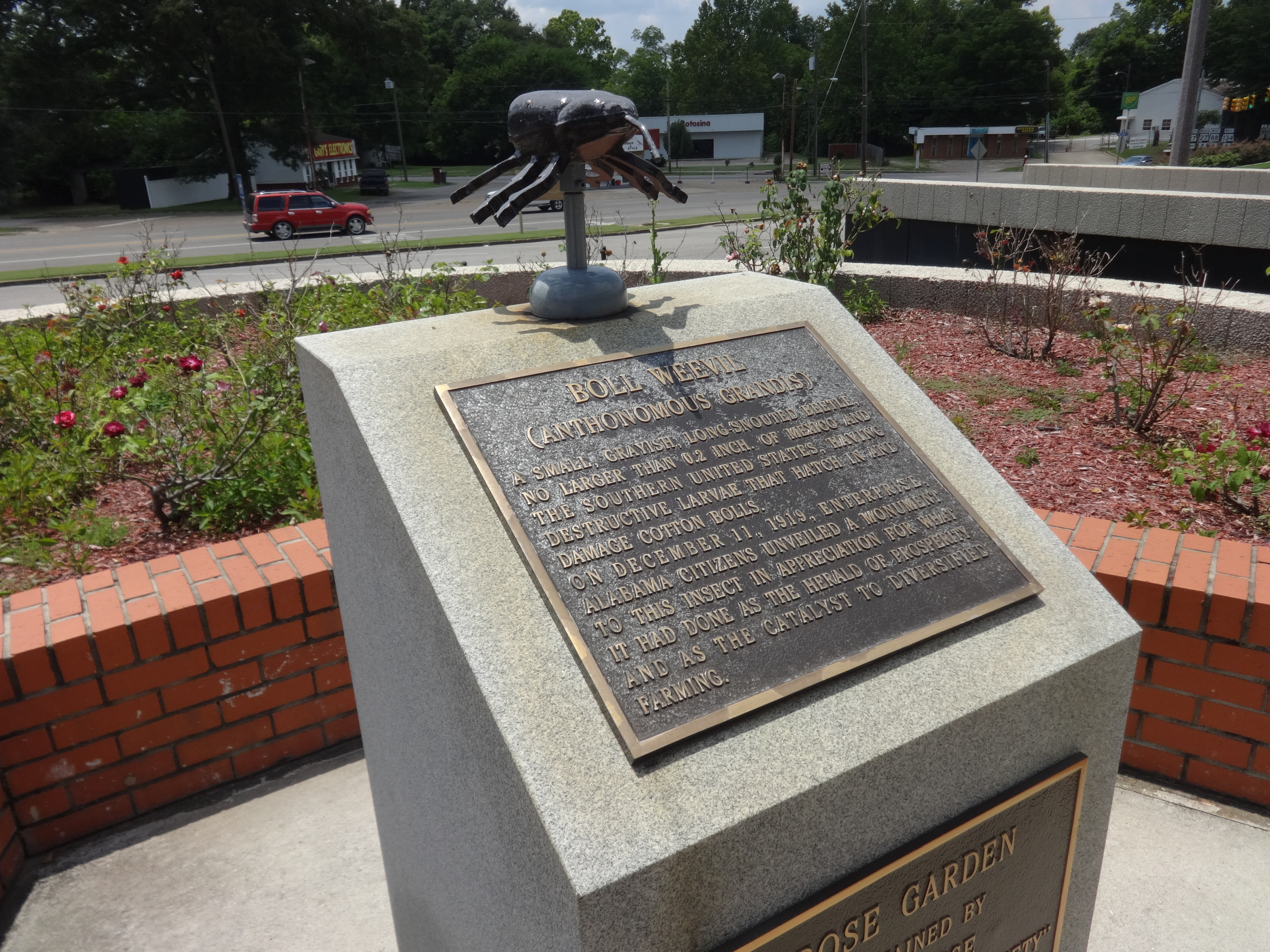 Enterprise, Coffee County, Alabama